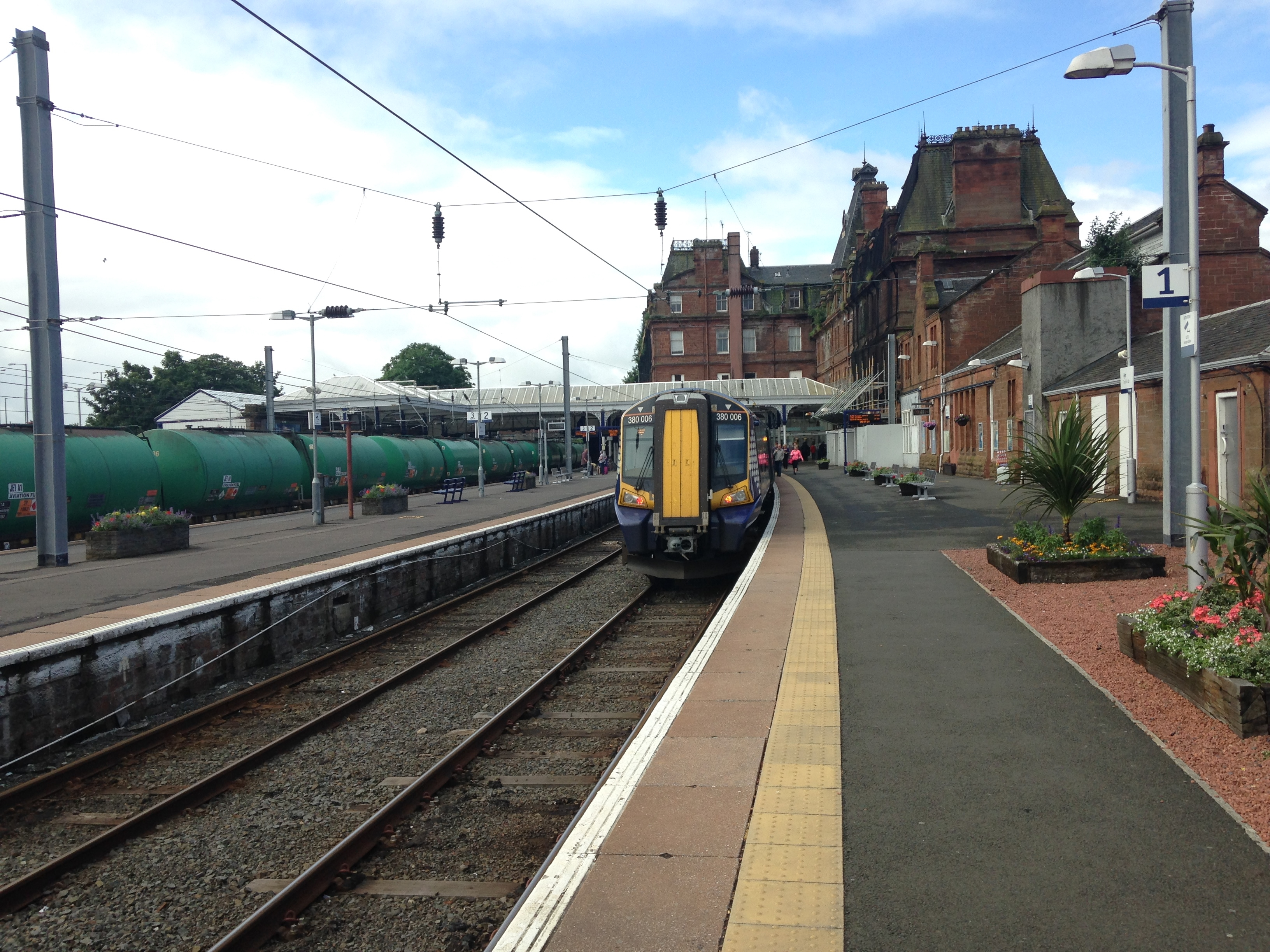 Ayr Railway Station, with 380006 at Platform 1 and Aviation Fuel tankers at Platform 3